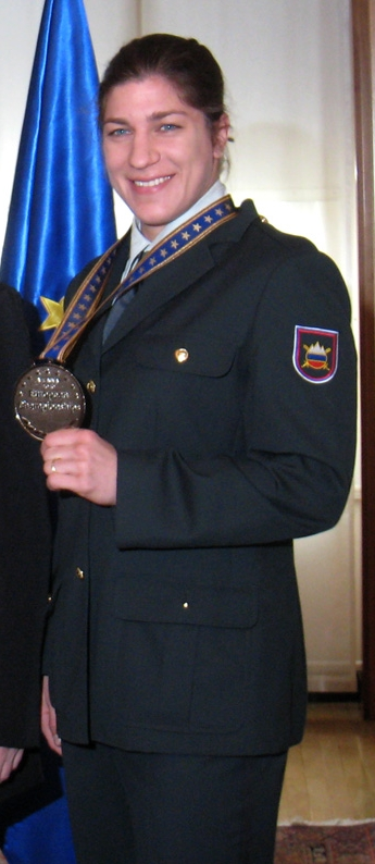 Raša Sraka cropped